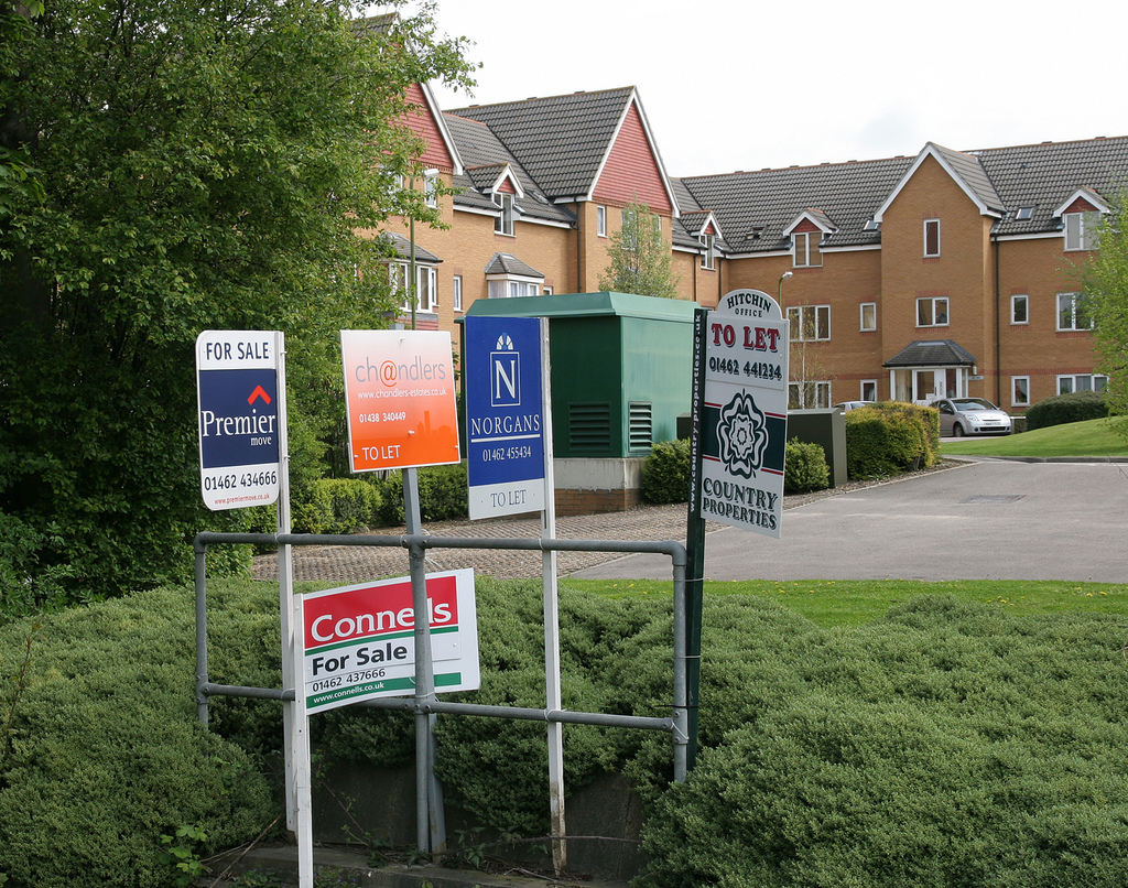 British for sale signs.